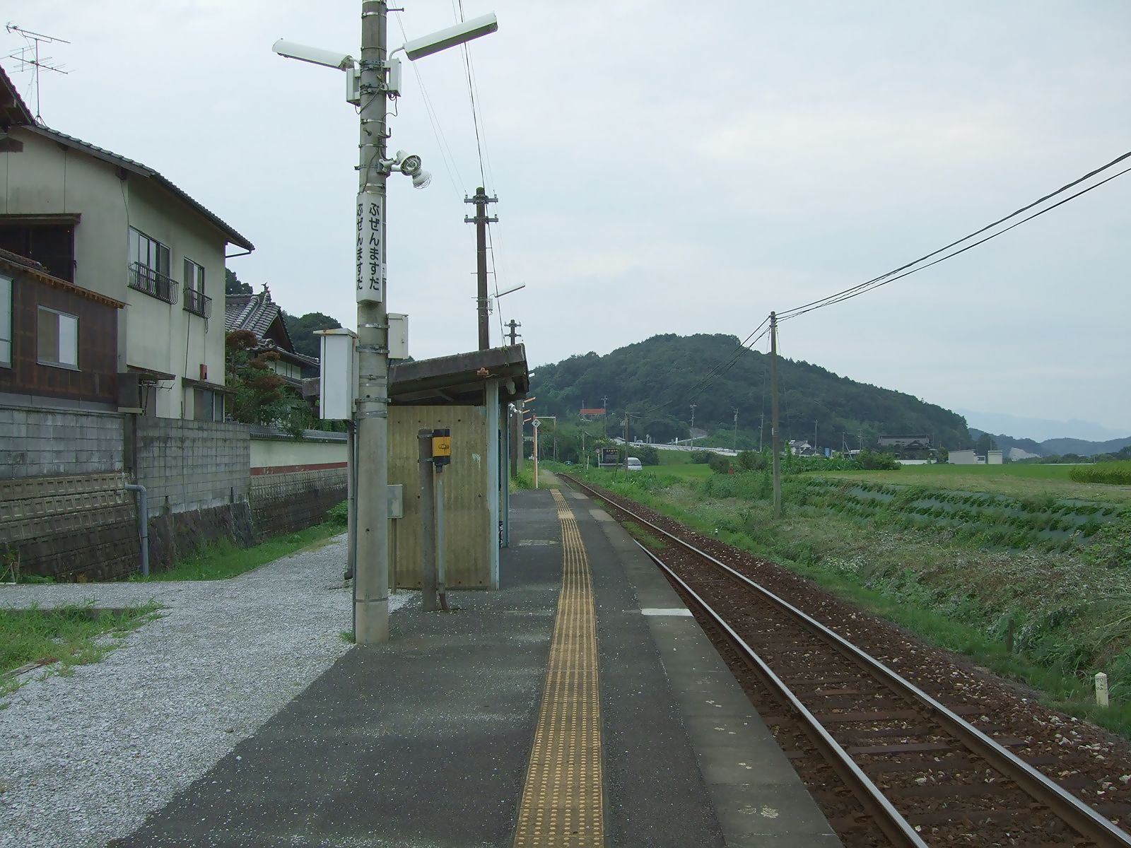 Buzen-Masuda Station, Hitahikosan Line, Kyushu Railway Company.